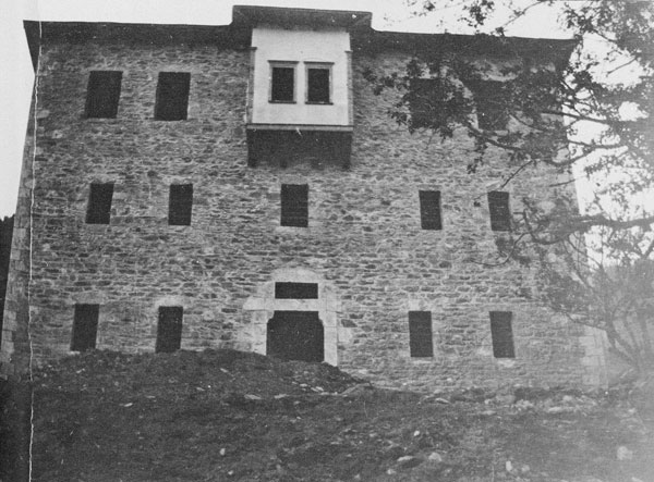 House in Brodec near Gostivar, Macedonia in 1907